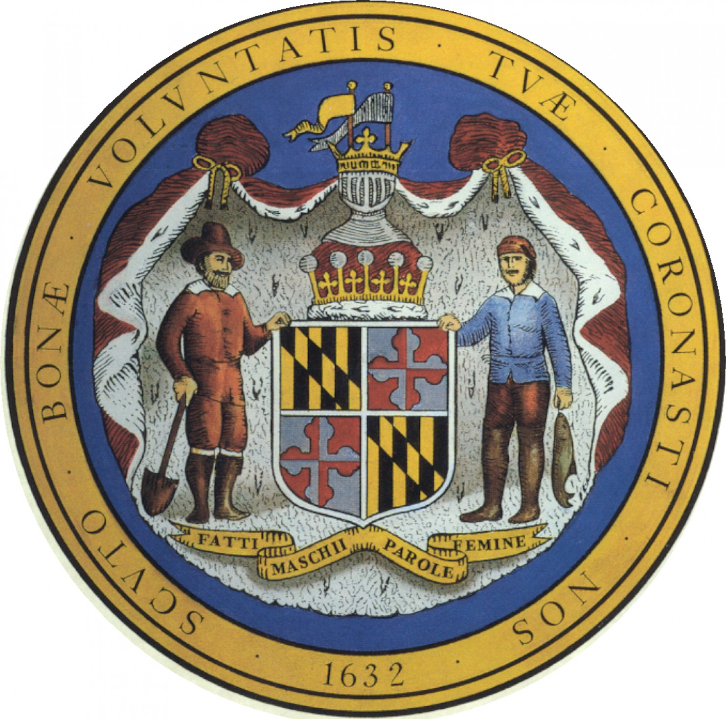 The Maryland state seal.